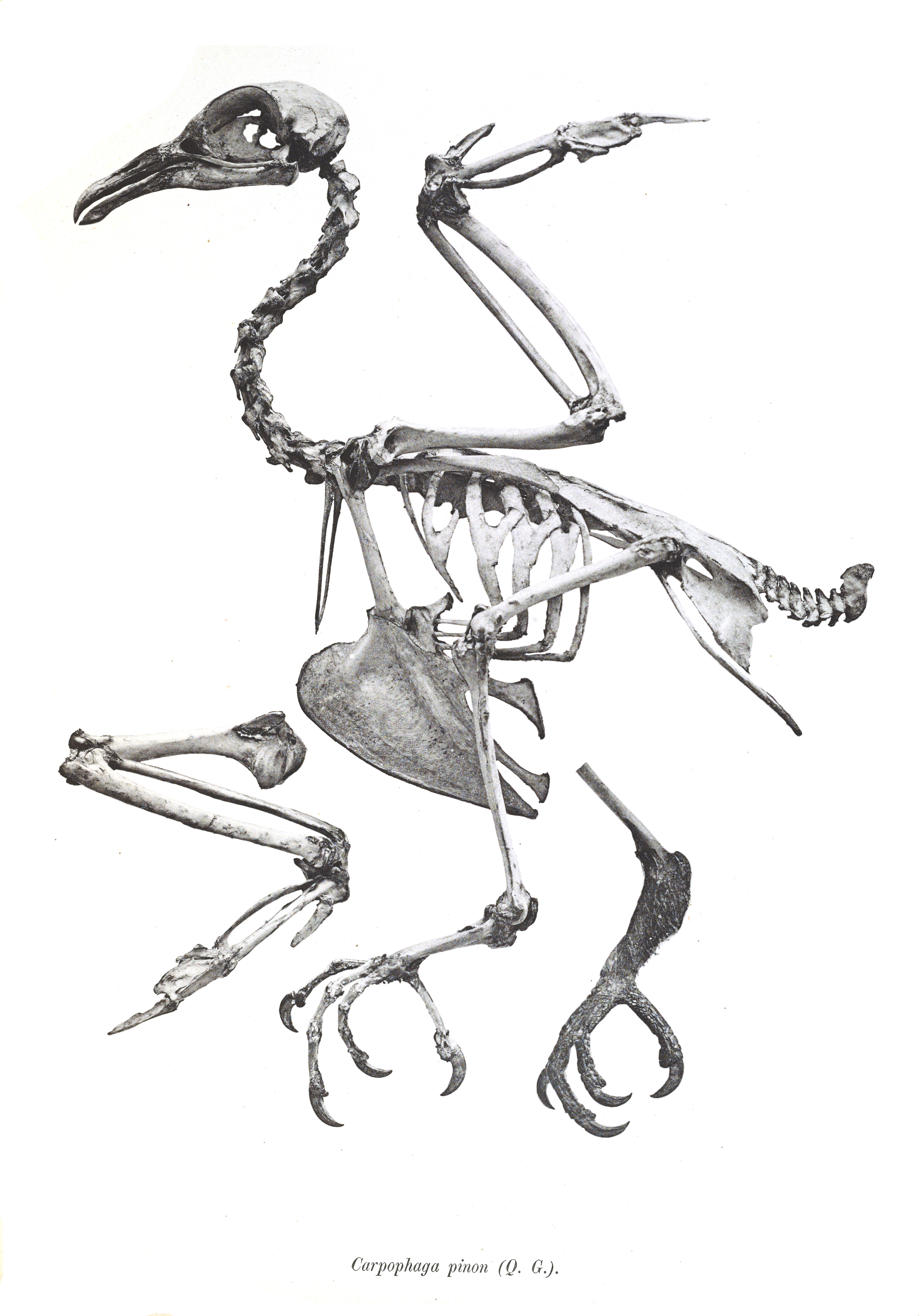 Carpophaga pinon